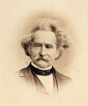 Heinrich Buntzen (1803-1892), Danish landscape painter